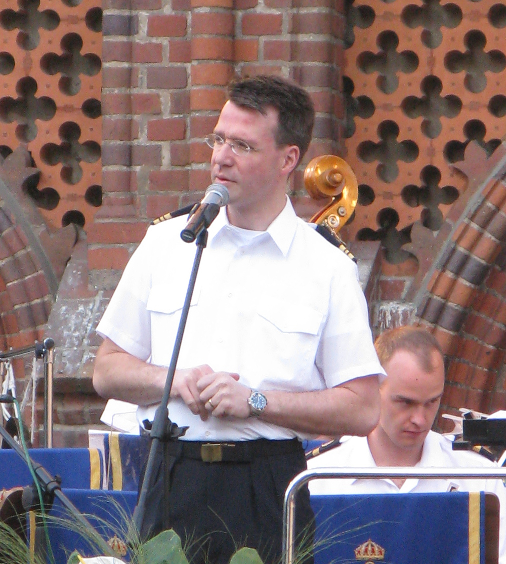 Andreas Hanson, conductor of Marinens musikkår